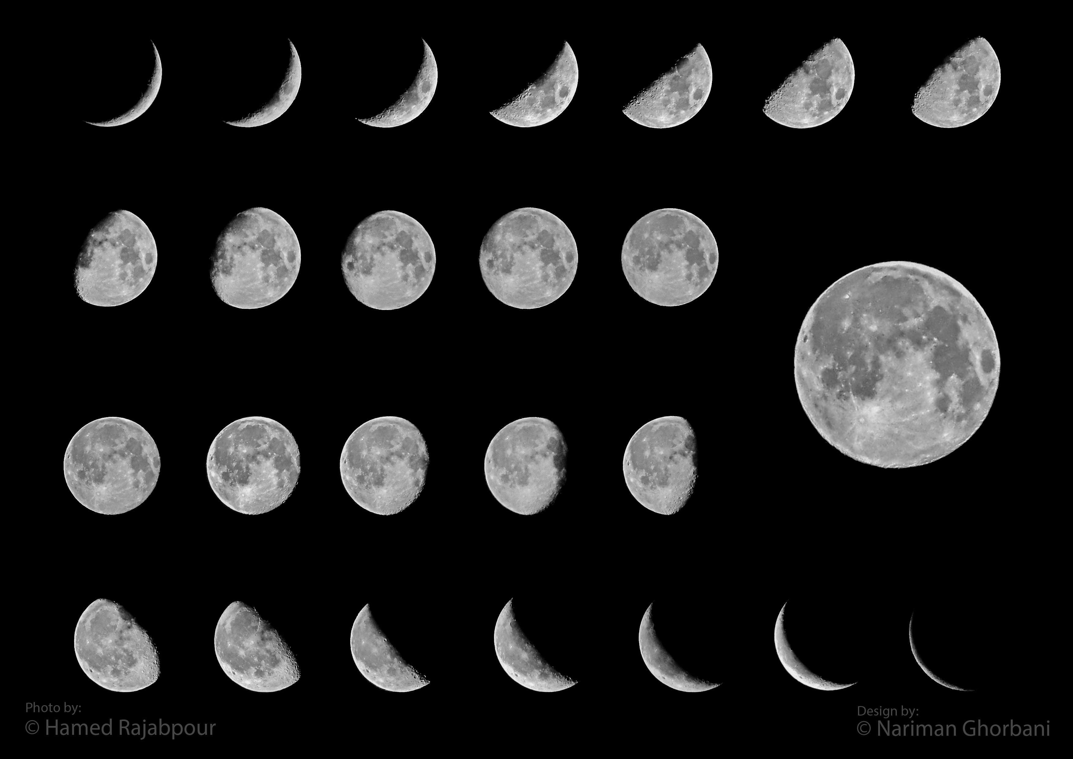 These images show the crescent of the moon in a one-month period. Due to bad weather, these images were taken within six months.. All of the images are photographed by Canon PowerShot SX130 IS camera and from a fixed location in Rasht,Iran.